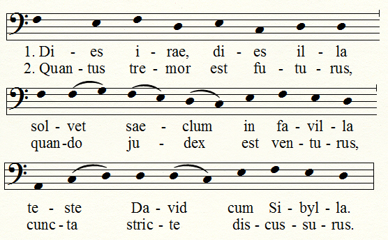 Dies irae sequence (transcribed, fragment)